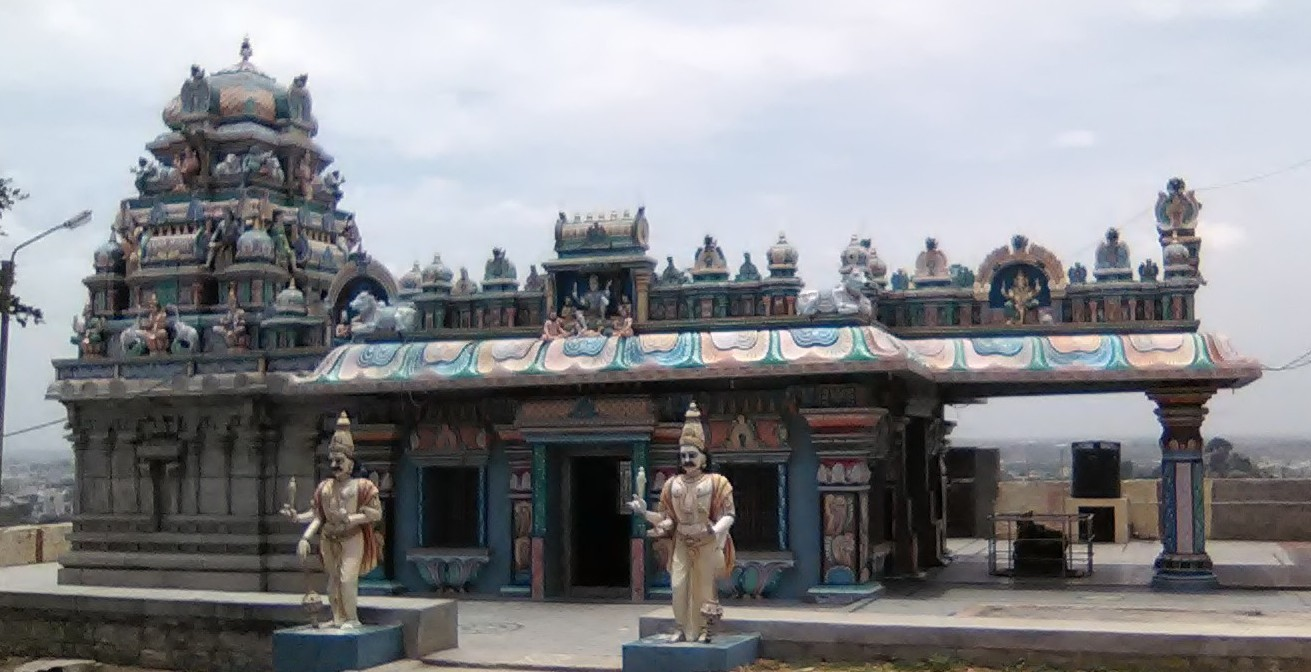 ஒசூர் காளிகாம்பாள் காமட்டீசுவரர் கோயில்